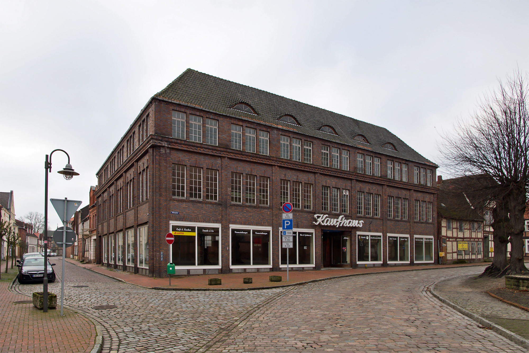 Former shopping mall of the small town Dömitz (district Ludwigslust-Parchim, northern Germany); building from 1926.